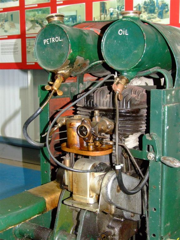 The single cylinder aircooled engine of the small railway locomotive seen on the previous picture. Built by Lister these small trucks and locomotives were widely used in industry. Interesting how the oil tank is the same size as the petrol tank. I hope no one ever got confused filling the two!!!